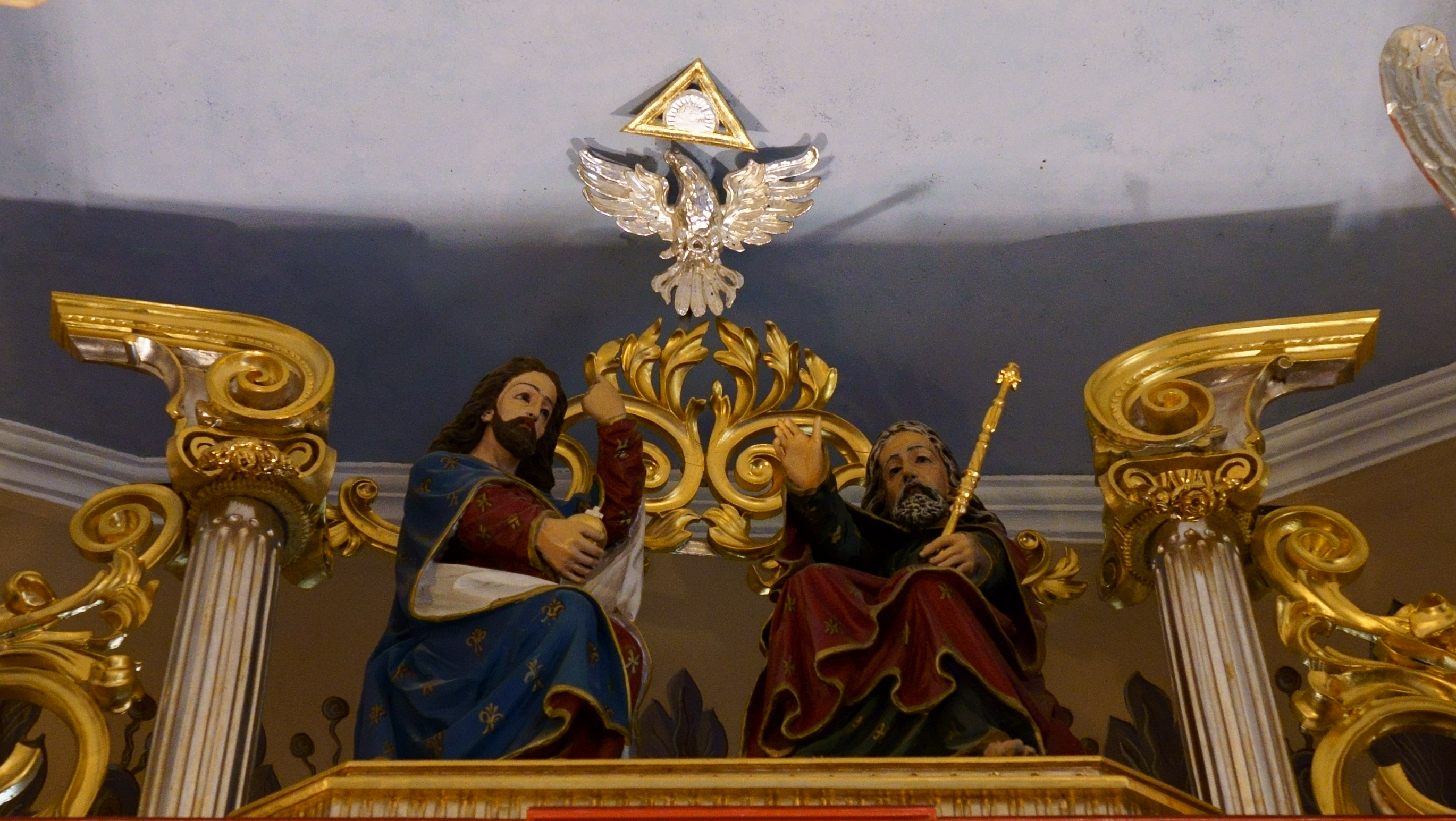 Holy Trinity Group. The church Wawrzyniec in Radziszów